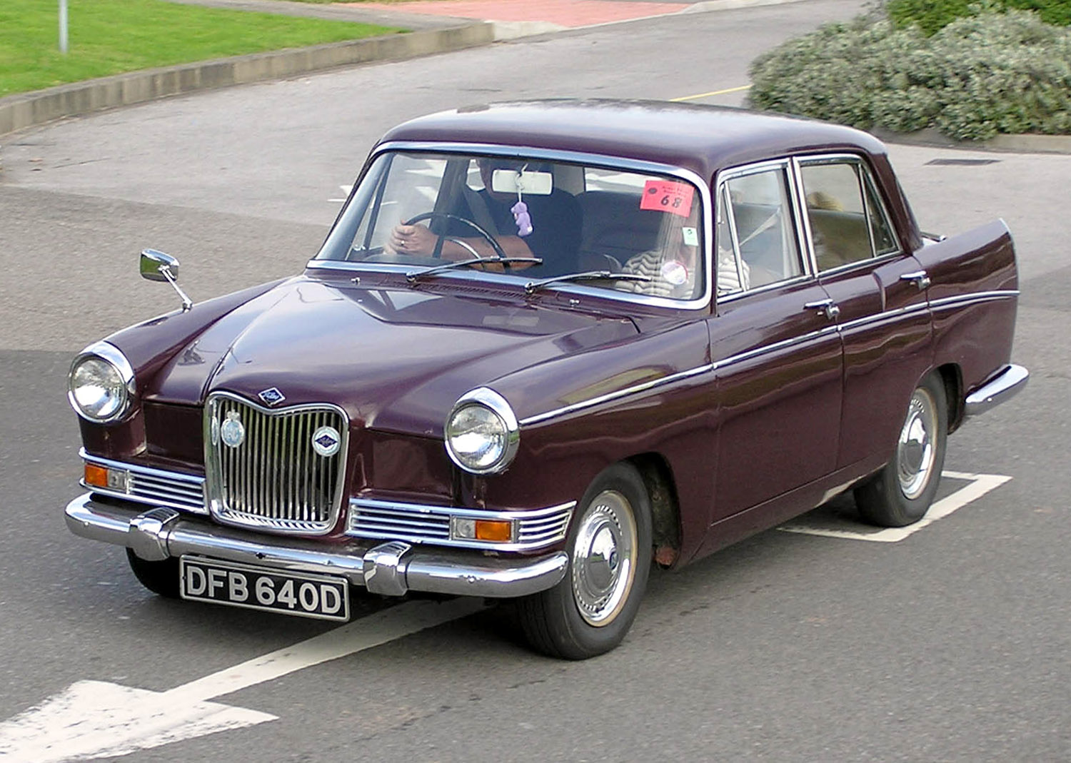 1965 Riley 4/72 at the Great Western Road Run rally at Aust Services, Aust, Bristol, England. Taken by Adrian Pingstone in October 2004 and released to the public domain.